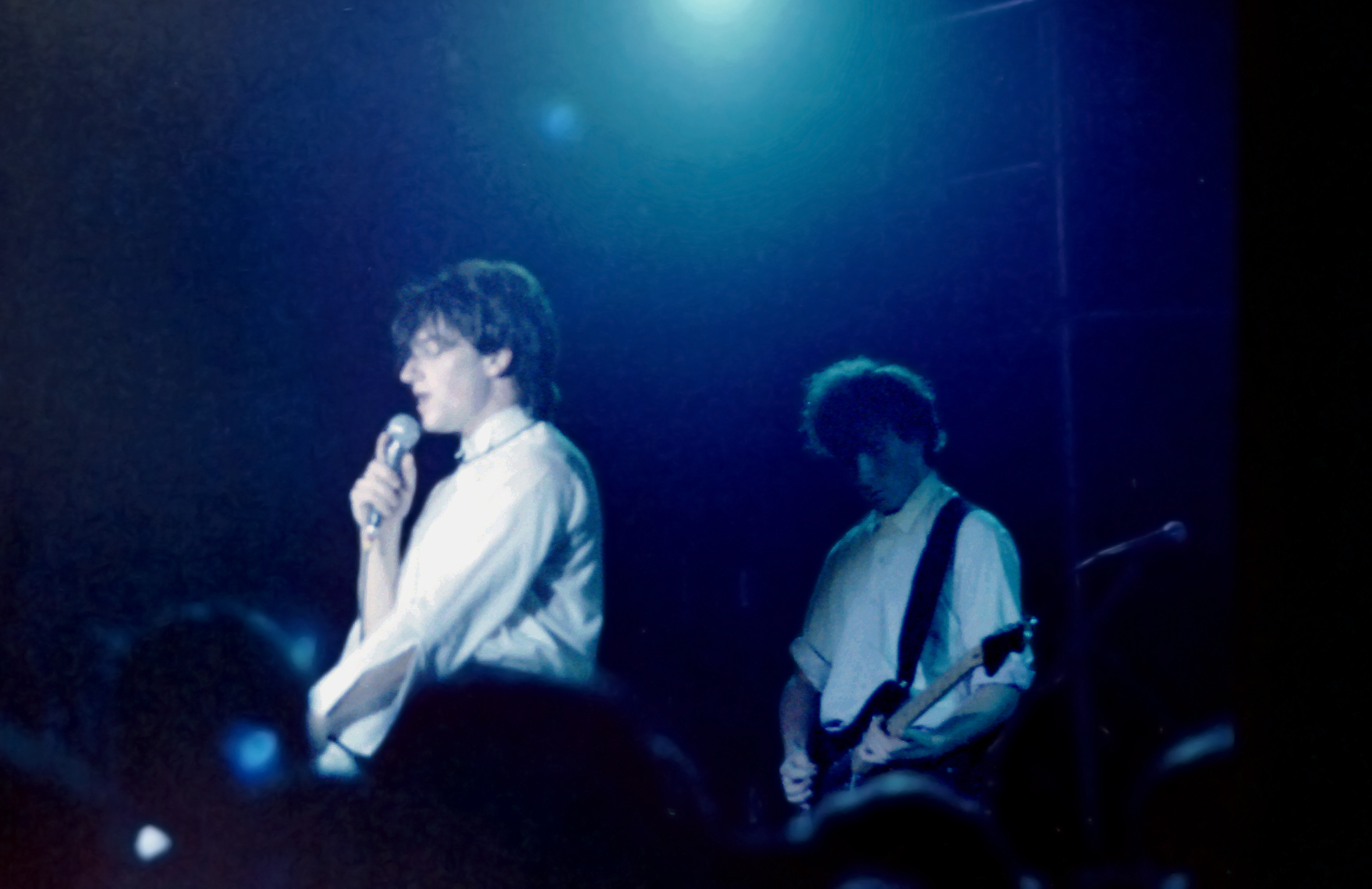 Bono and the Edge of U2 performing in the Ryerson Theatre in Toronto, Canada on May 19, 1981 during the Boy Tour